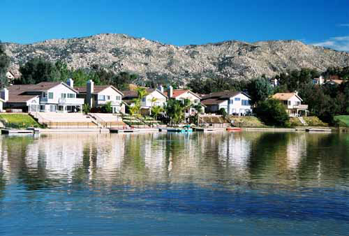 Lake in North Moreno Valley.